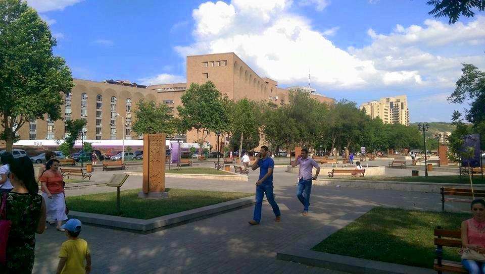 Aram street, government bld. no.3 Yerevan, Armenia (2015)